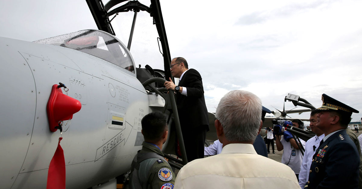 President Benigno Aquino III in attendance to the joint turnover and blessing of FA-50PH Goldean Eagle jets to the Philippine Air Force.